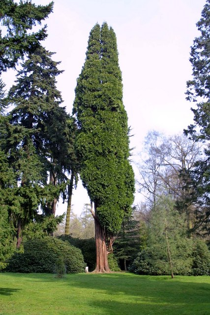 Nuneham Courtney Arboretum